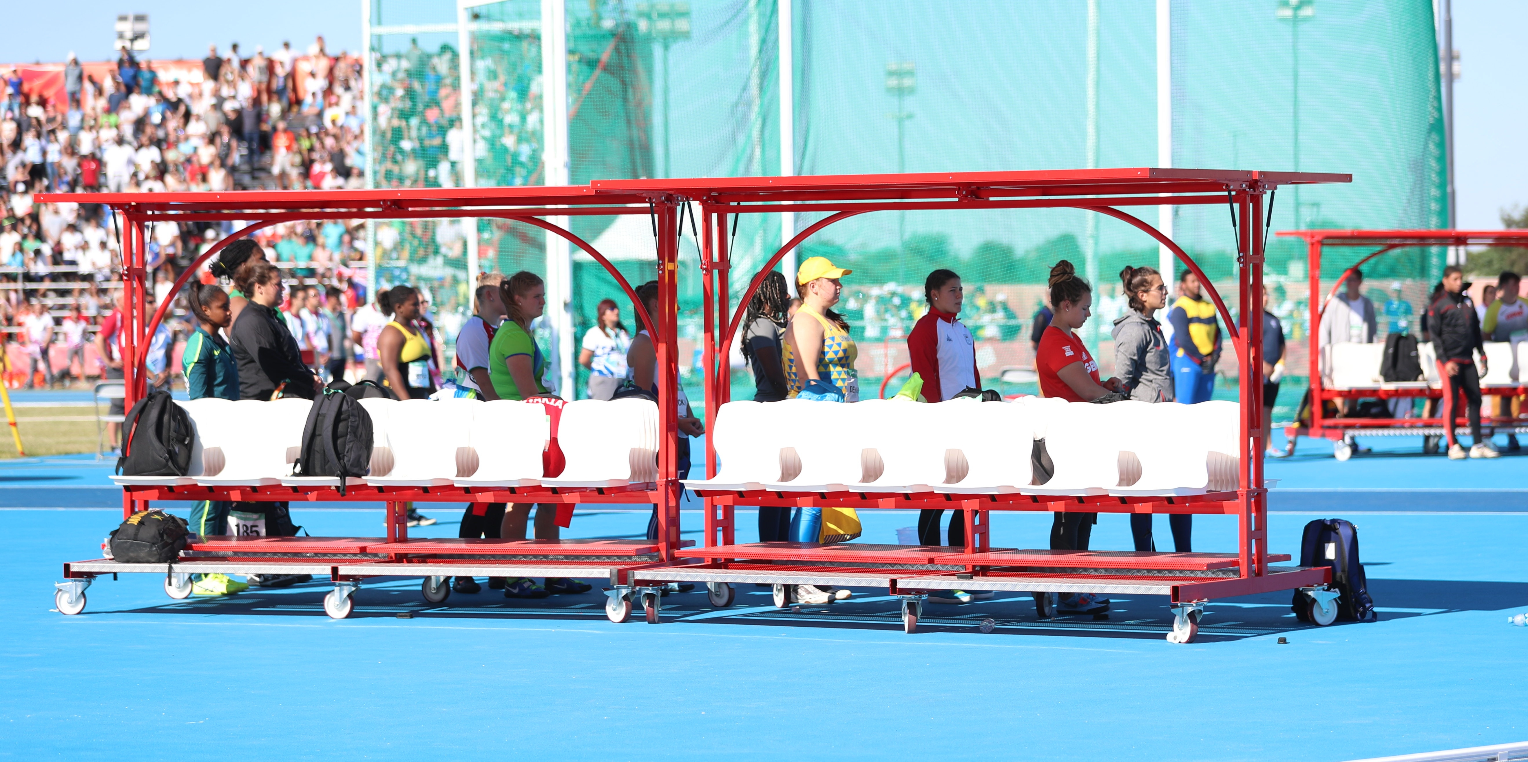 Athletics, Girls' Shot put Stage 2, at the 2018 Summer Youth Olympics in Buenos Aires on 15 October 2018.